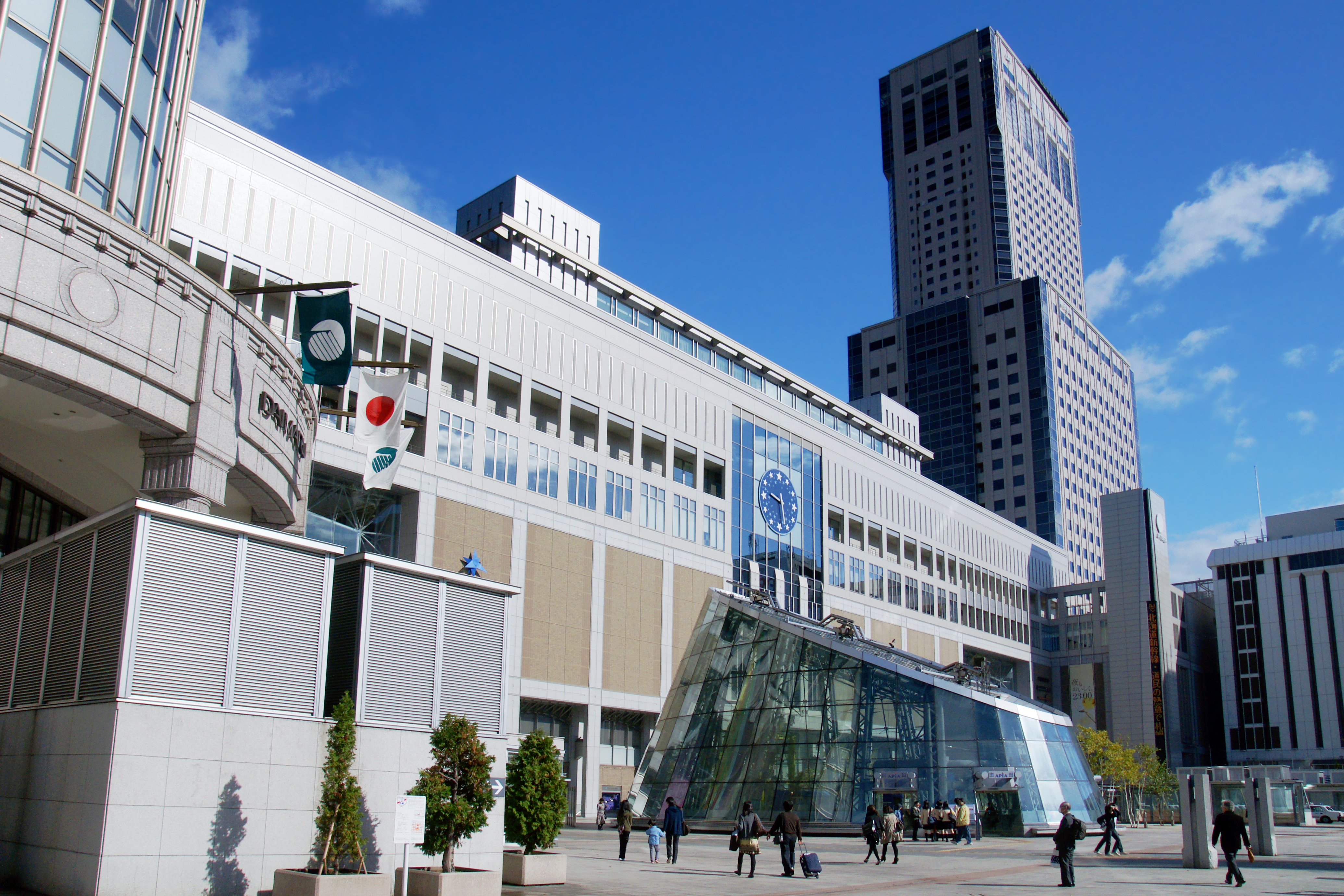 The south side forecourt of Sapporo Station in Sapporo, Hokkaido, Japan